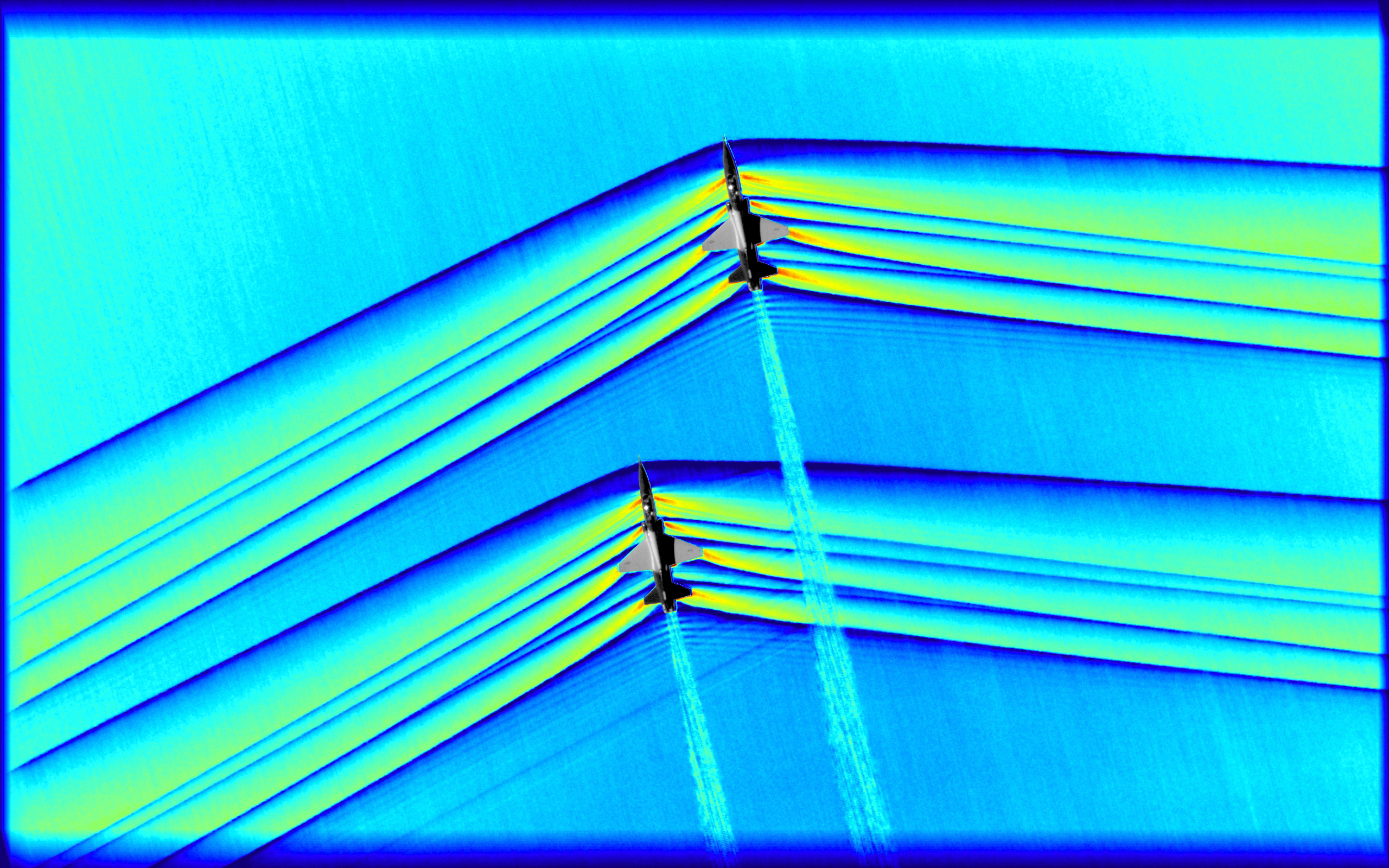 One of the greatest challenges of the flight series was timing. In order to acquire this image, originally monochromatic and shown here as a colorized composite image, NASA flew a B-200, outfitted with an updated imaging system, at around 30,000 feet while the pair of T-38s were required to not only remain in formation, but to fly at supersonic speeds at the precise moment they were directly beneath the B-200. The images were captured as a result of all three aircraft being in the exact right place at the exact right time designated by NASA’s operations team.